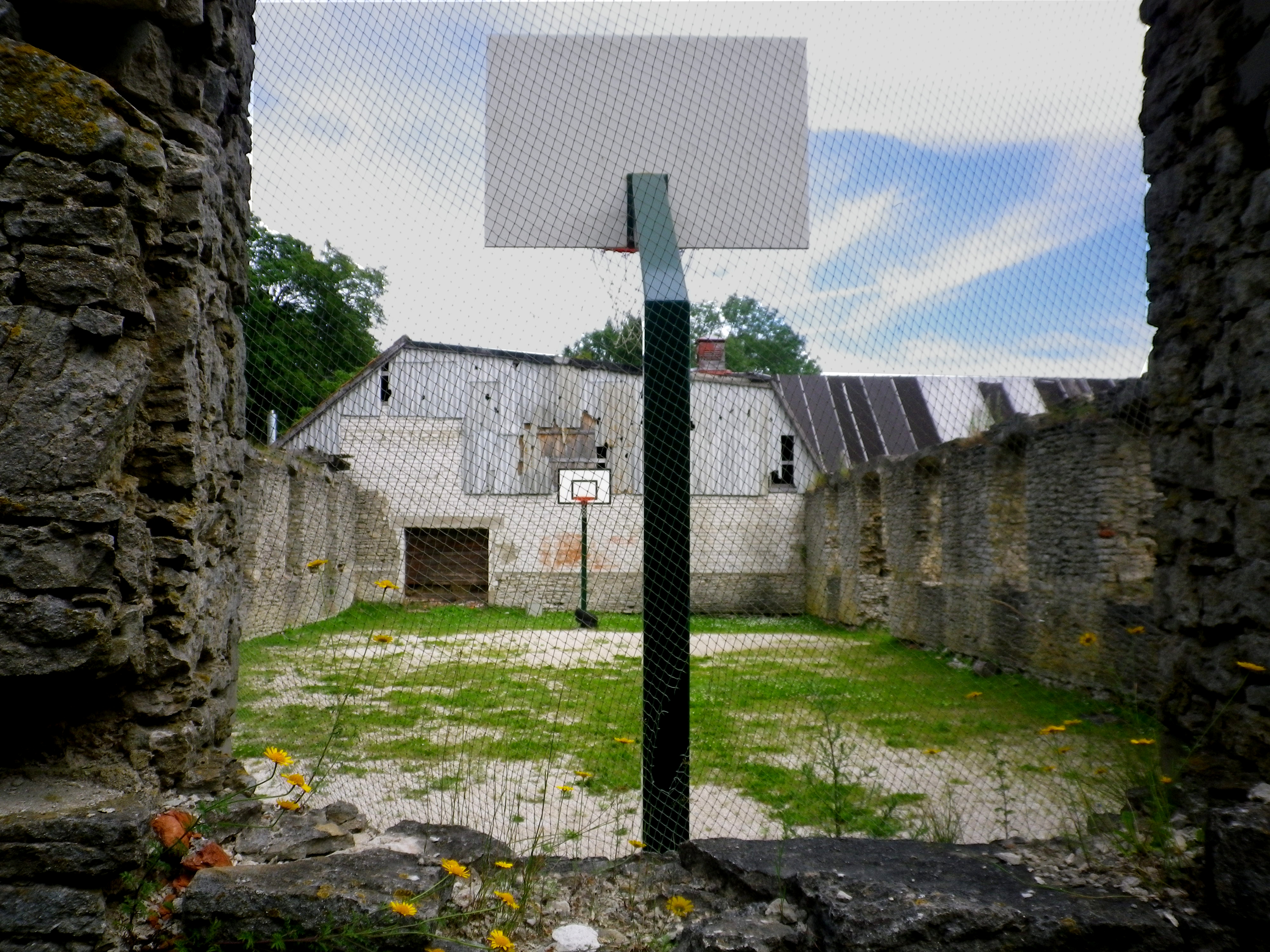 Stable of Suuremõisa manor, Hiiumaa, Estonia